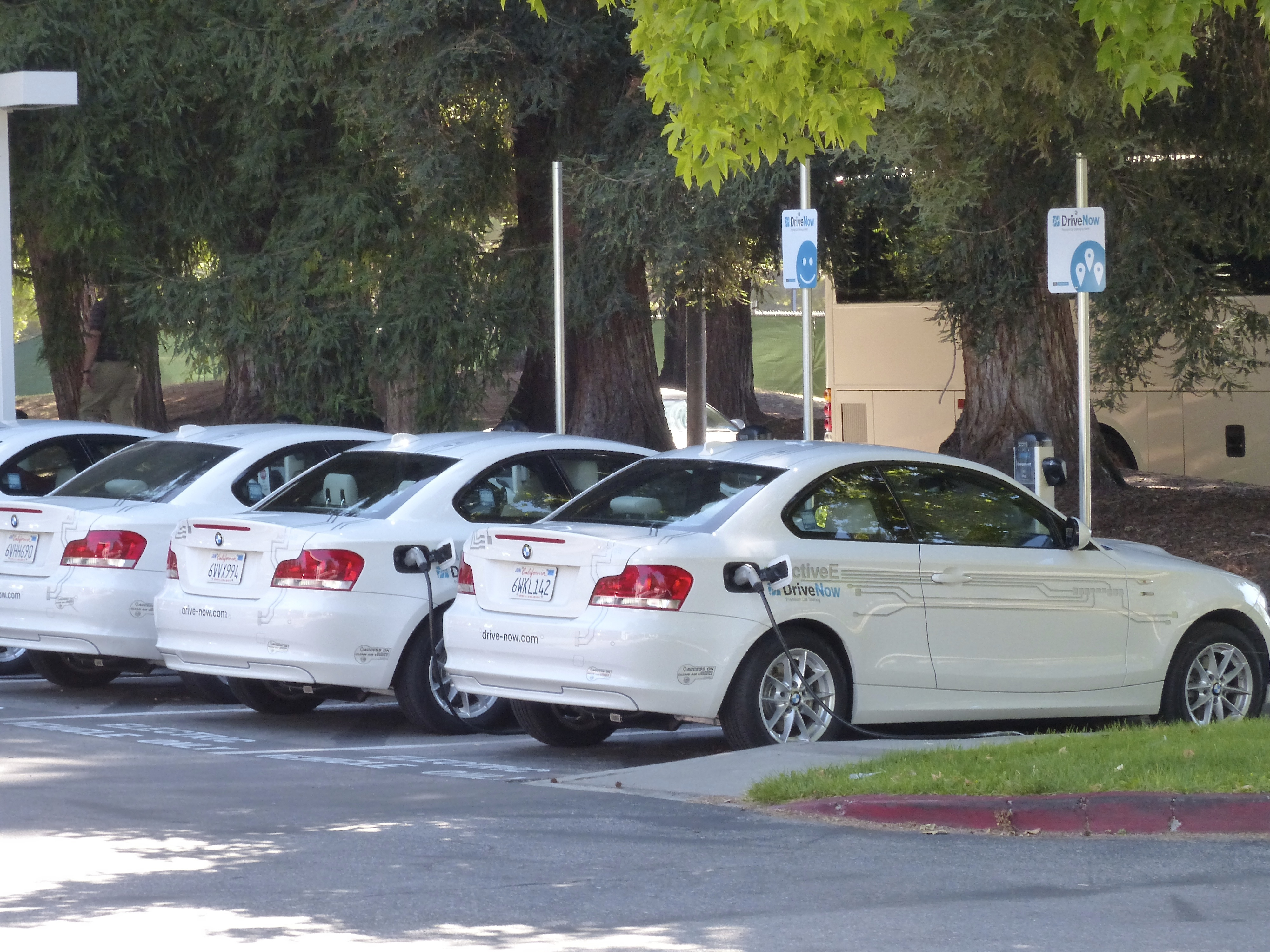 Electric BMWs Charging at Google